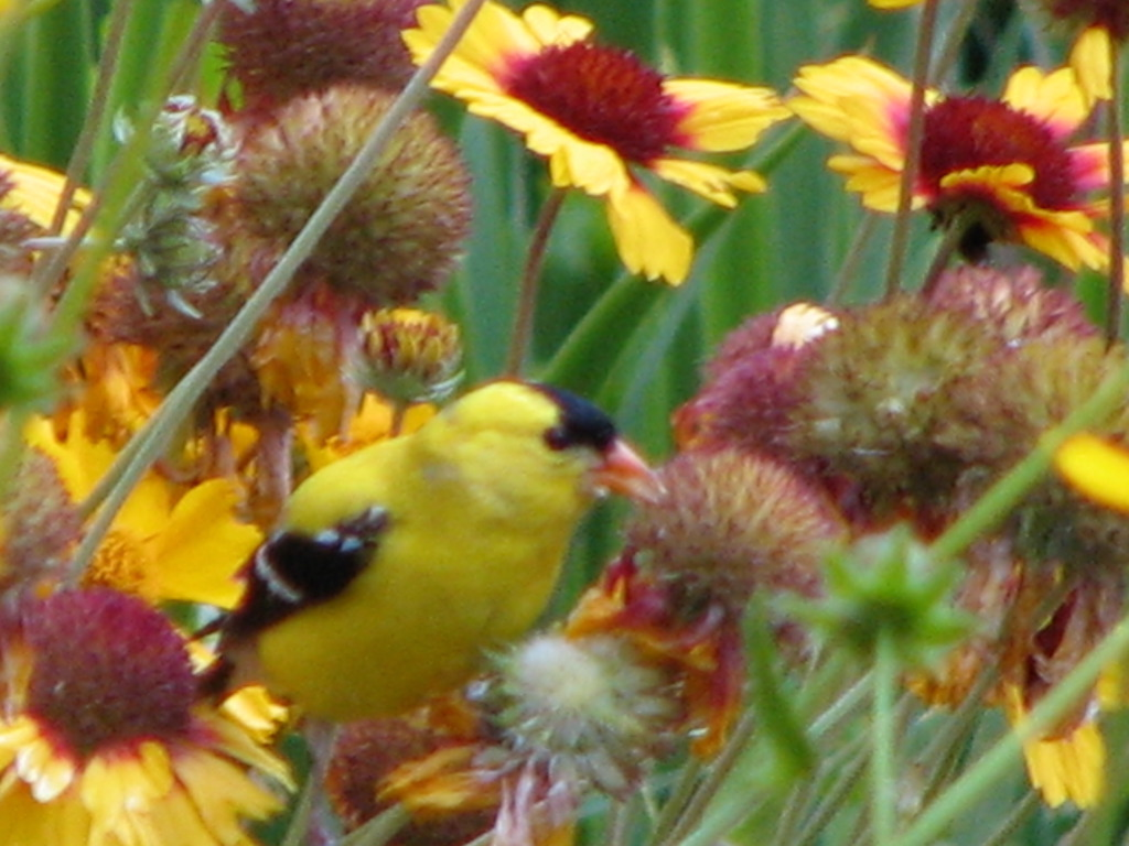 A male American Goldfinch Spinus tristis eating the center of the flowers. Shot from 15 feet away.